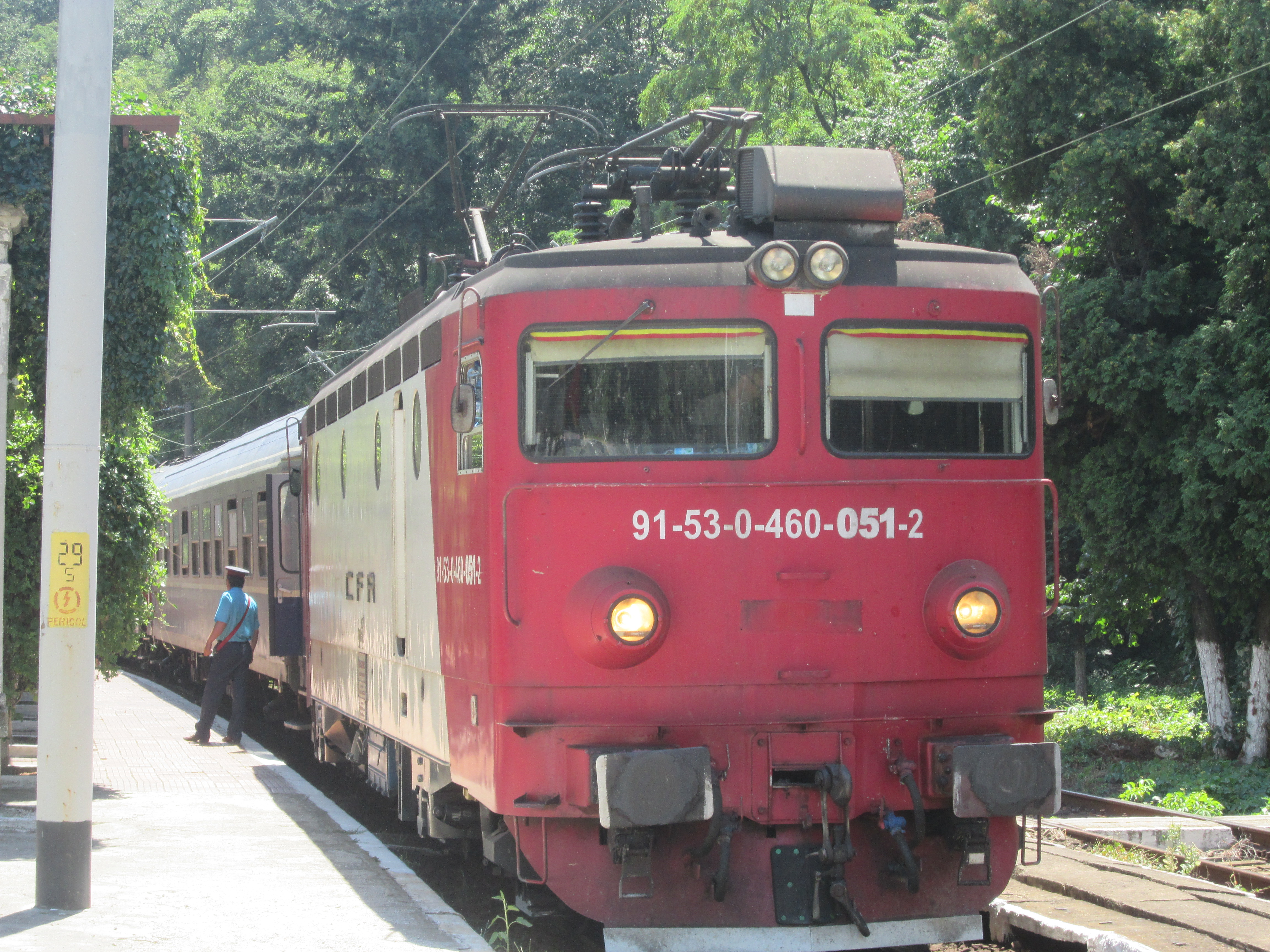 CFR 460 051 (formerly 43-0051-3, made by Rade Koncar Zagreb and Masinska Industrija Nis) at Baile Herculane rail station with a local train